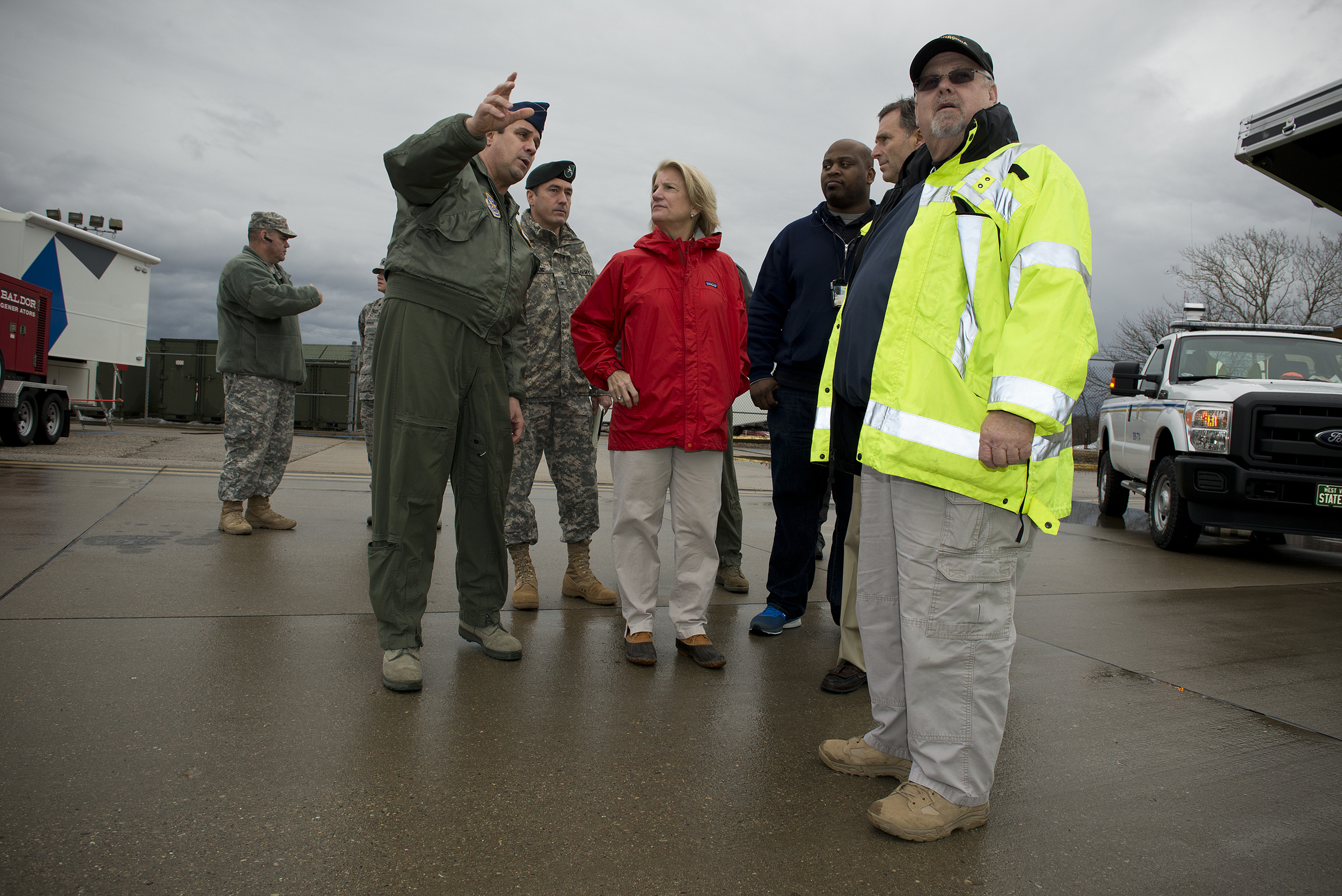 2014 Elk River chemical spill — Congresswoman Shelley Moore Capito, in red, meets with U.S. Air Force Col. Jerome Gouhin, left, the commander of the 130th Airlift Wing, West Virginia Air National Guard, at a Federal Emergency Management Agency staging area in Charleston, W.Va., Jan. 11, 2014. *The West Virginia National Guard was activated to distribute drinking water and assist residents affected by a chemical spill on the Elk River near Charleston.